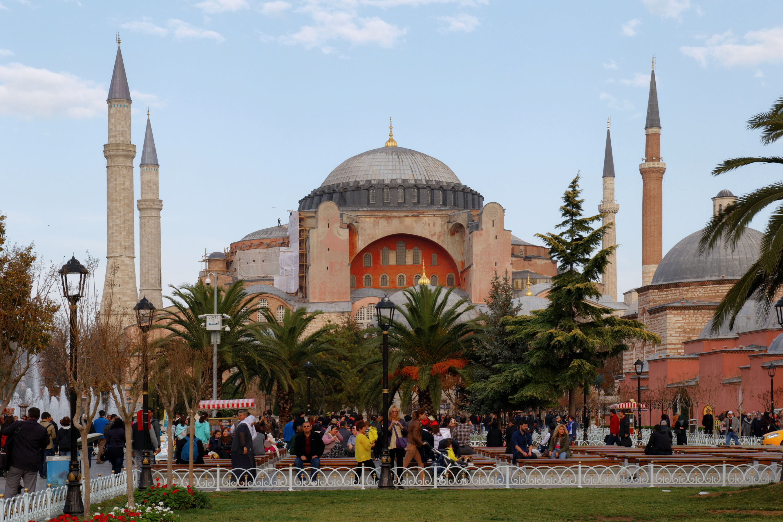 Istanbul. Hagia Sophia